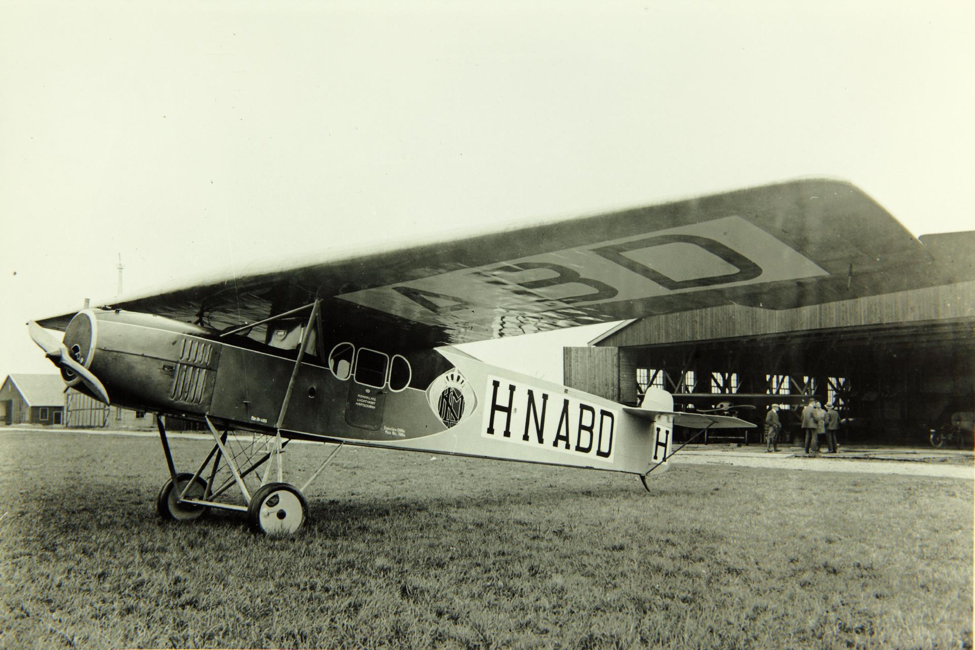 Fokker F.II of KLM with Dutch registration H-NABD. This was one of two F.IIs bought by the airline; they were the first aircraft it owned. This aircraft has the F.II's original round radiator and probably also its original 185 hp (138 kW) BMW IIIa engine. (H-NABD was registered on 13 September 1920, so this photo cannot precede that date, but its engine was soon replaced by a Siddeley Puma with a bigger radiator, so this photo must be near the start of its career.) Fokker, F.II Catalog #: 01_00080306 Title: Fokker, F.II Corporation Name: Fokker Additional Information: Germany Designation: F.II Tags: Fokker, F.II Repository: San Diego Air and Space Museum Archive